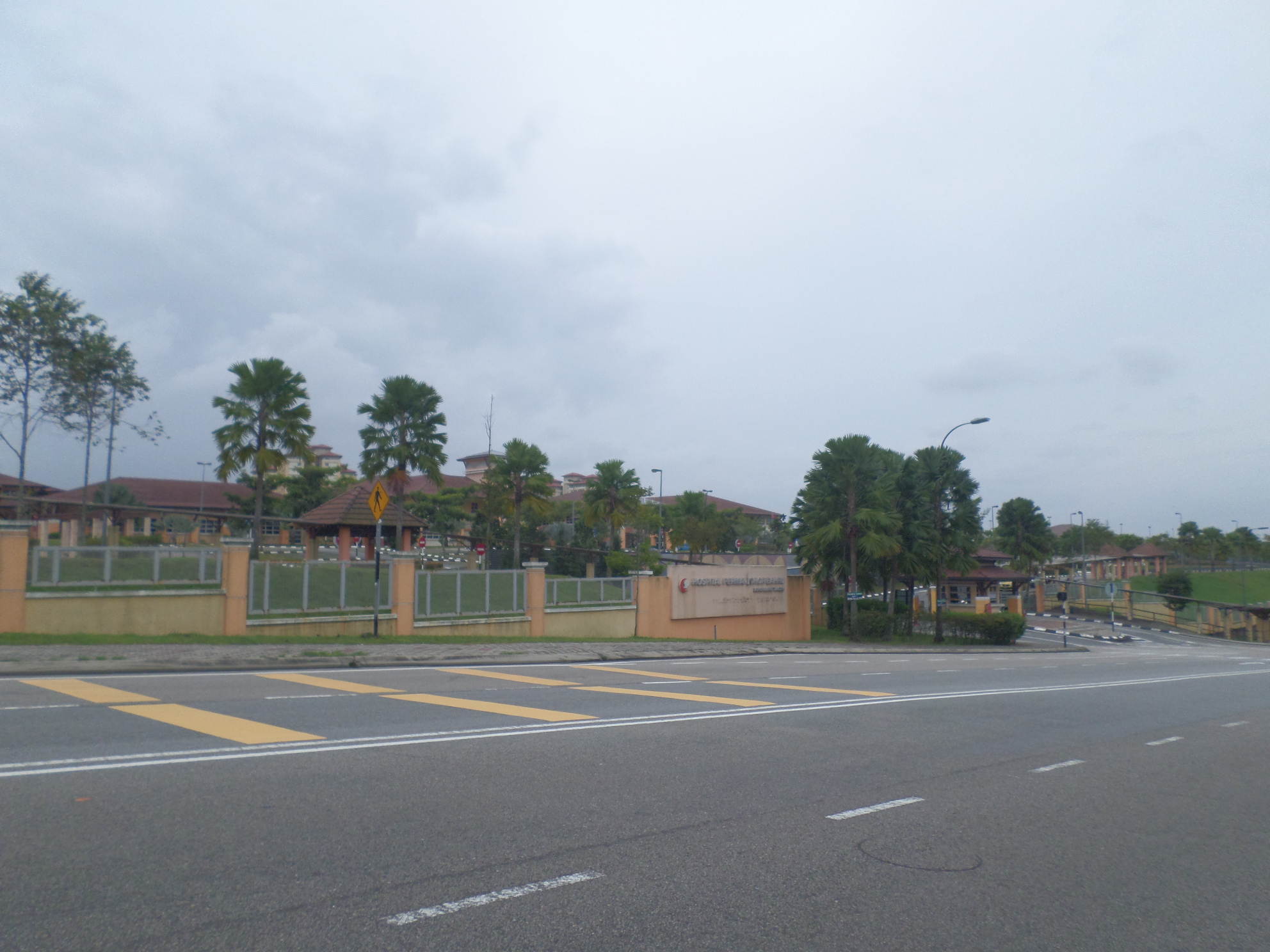 Johor Bahru Permai Hospital, Kempas Baru, Johor Bahru, Johor, Malaysia